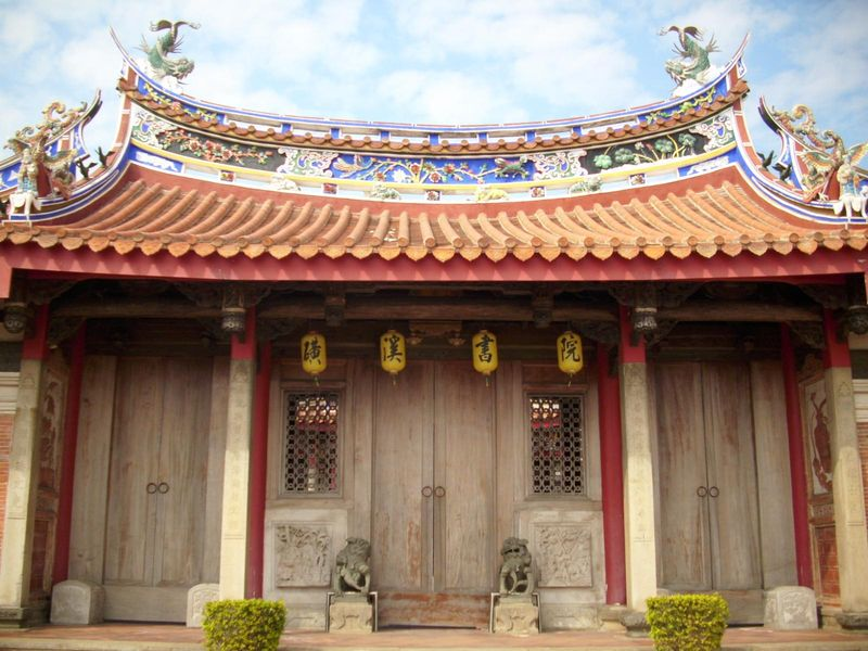 Huanĝi Academy, Dadu District, Taichung.中文（台灣）: 位在台中市大肚區磺溪里的磺溪書院。